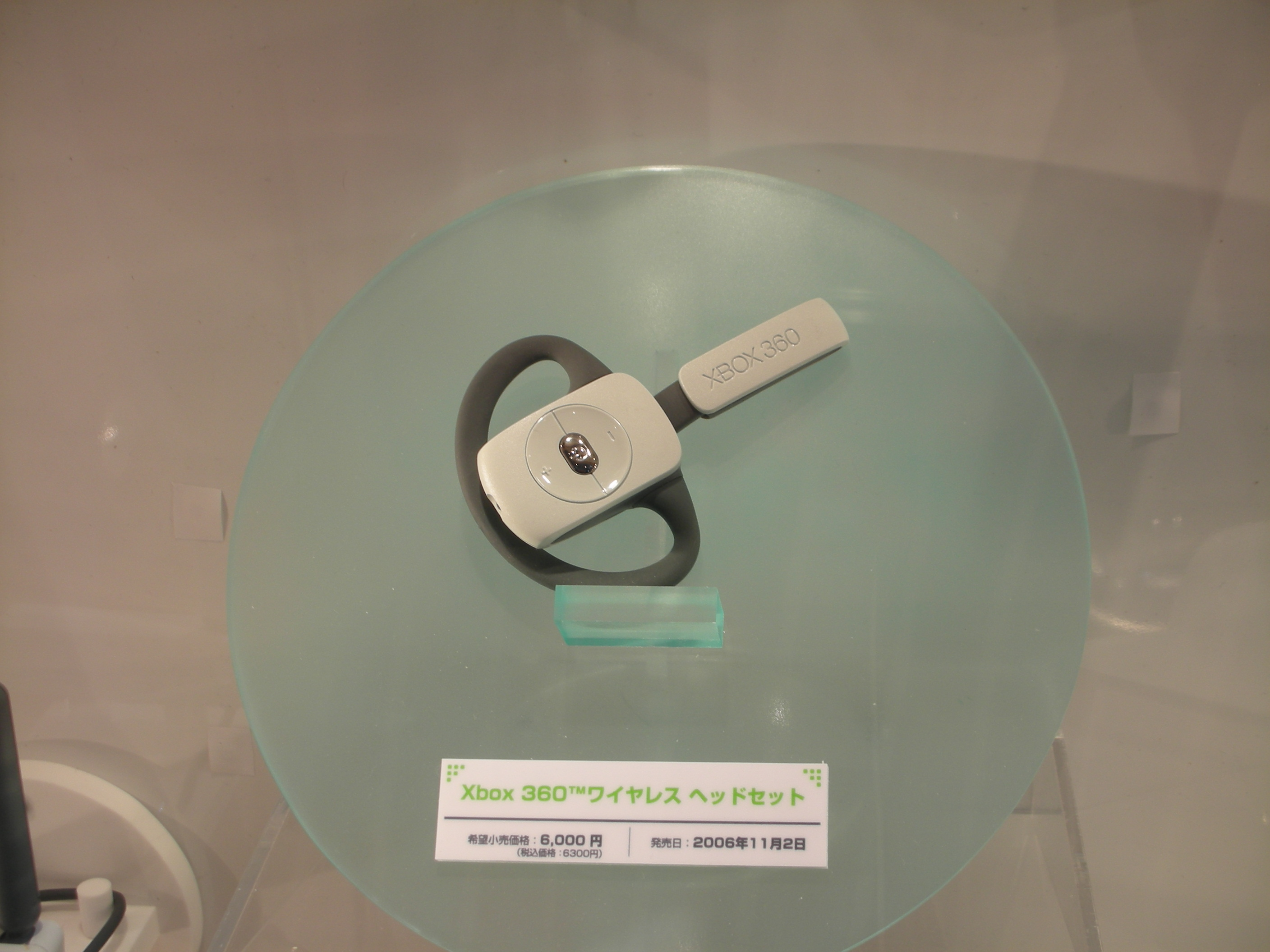 Xbox 360 Wireless Headset at TGS 2006